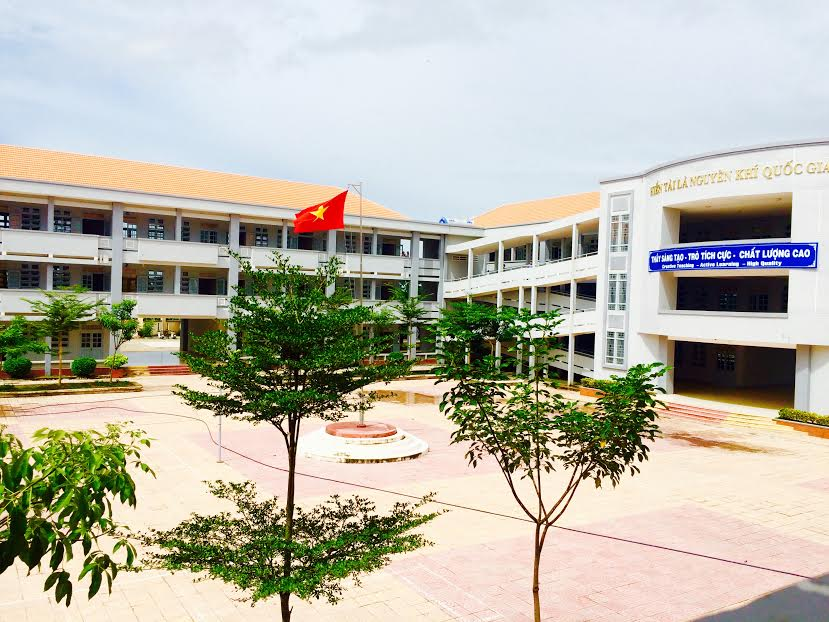 The main courtyard of NQD